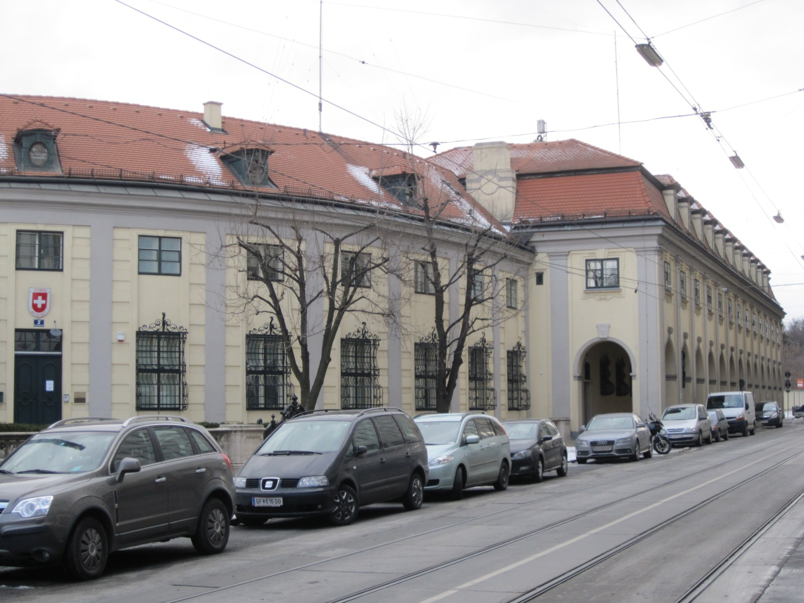 Swiss embassy - former riding school of Palais Schwarzenberg, Prinz Eugen-Straße 7-11a, Landstraße, Vienna.